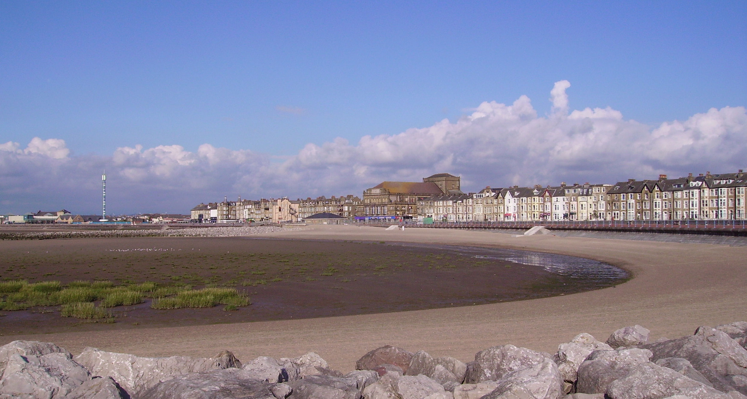 beach of Morecambe, United Kingdom